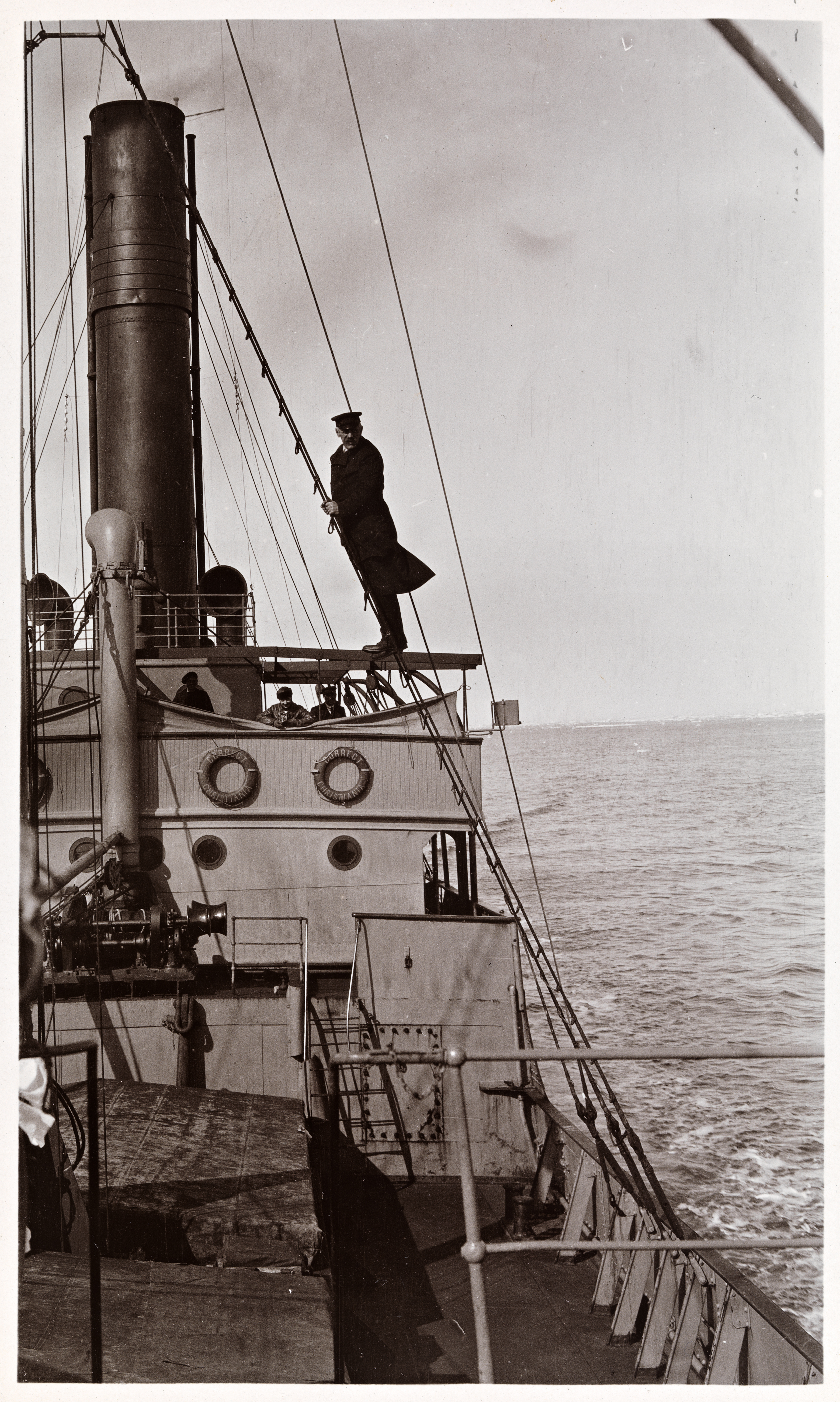 Motiv / Motif: På broen, fra venstre, står en av mannskapet, Josef Gregorievitsj Loris-Melikov (sekretær ved den russiske legasjonen i Norge) og kaptein Johan Samuelsen. Ett av bildene fra Nansens reise til Sibir i perioden 2. august - 26. oktober 1913. Dato / Date: august 1913 Fotograf / Photographer: Jonas Lied Sted / Place: Karahavet Eier / Owner Institution: Nasjonalbiblioteket / National Library of Norway Lenke / Link: Bildesignatur / Image Number: bldsa_3f120